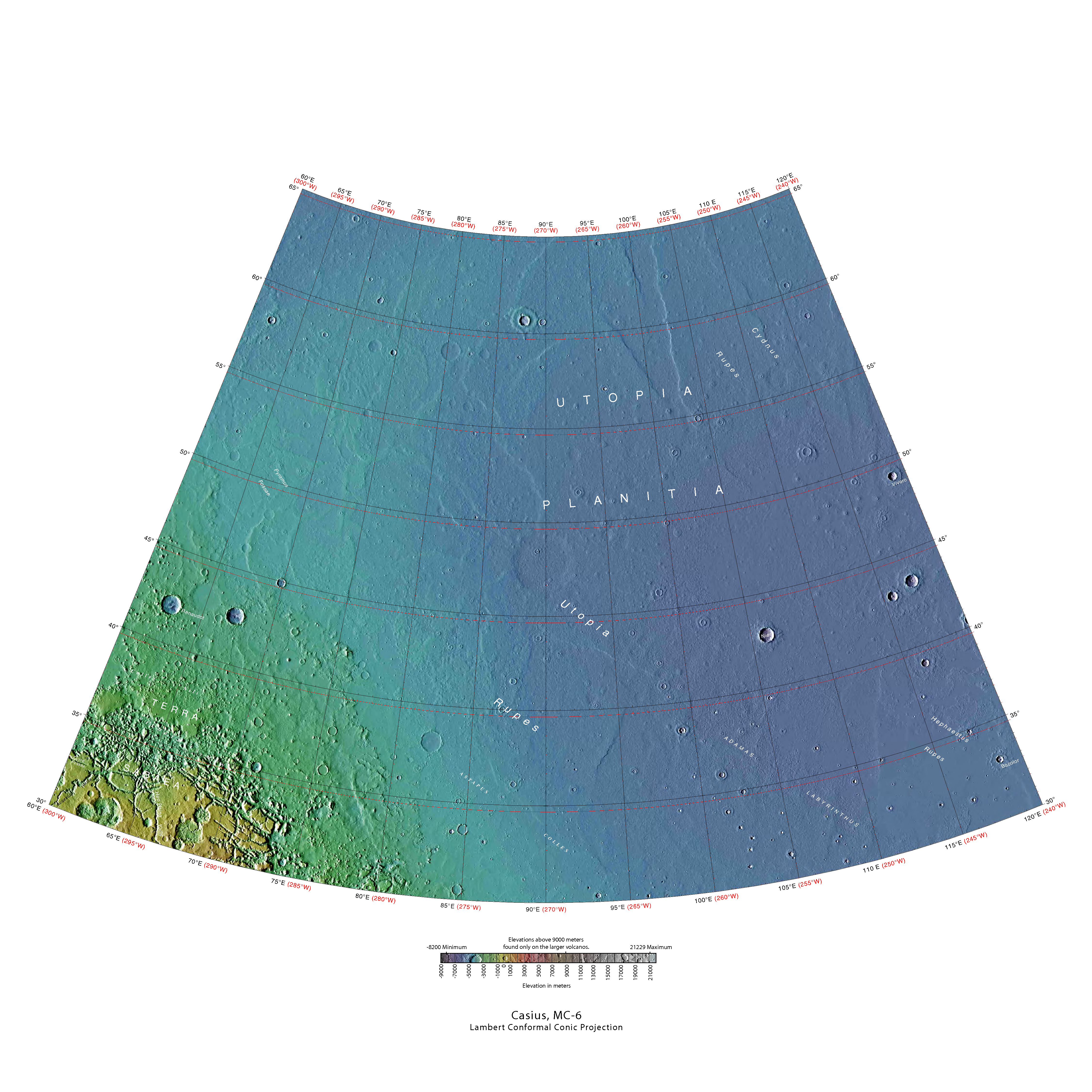 MOLA Topographic Map of Casius Quadrangle (MC-6) on the planet Mars. NOTE: Converted the original PDF file to a PNG File (via - and uploaded to Wikimedia Commons.